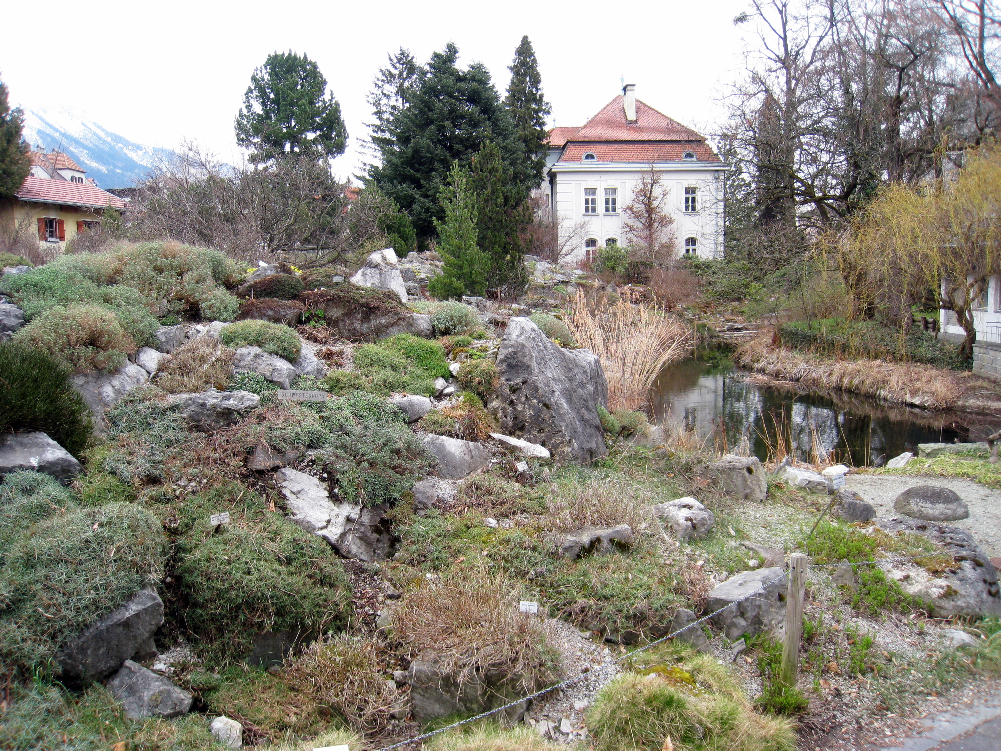 Innsbruck Botanical Garden, Innsbruck, Austria.